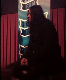 Swedish film director Jonas Åkerlund.